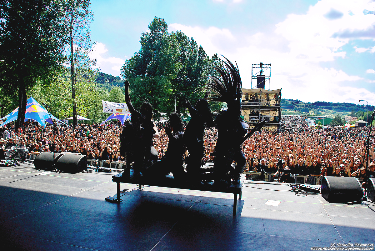 Neonfly performing at biggest Czech metal festival, Masters of Rock